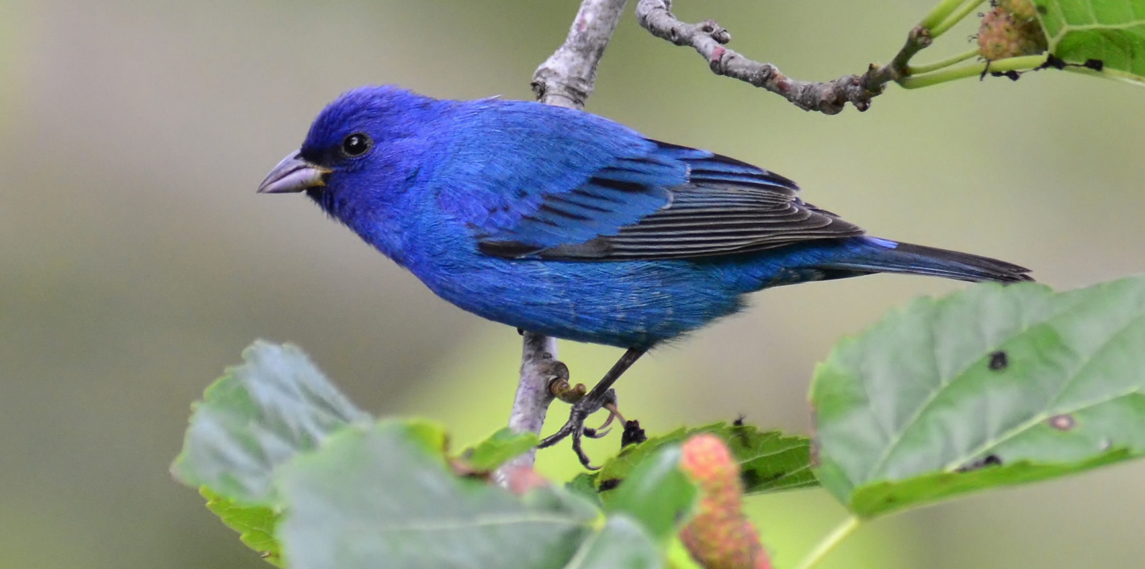 Fort DeSoto Park, St. Petersburg, Florida, USA